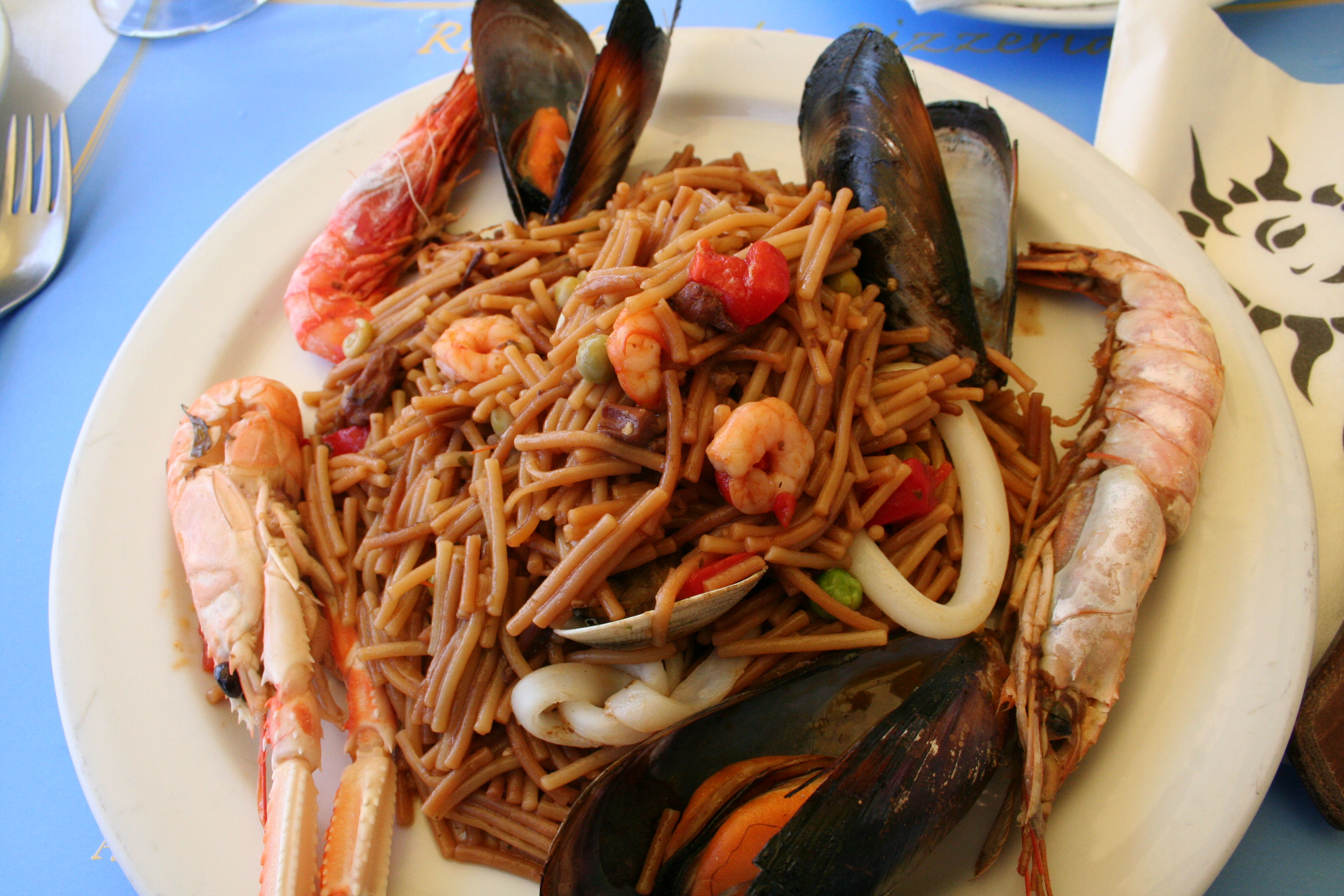 Fideuà dish